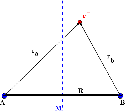 Geometry of Hydrogen Molecular Ion (clamped nuclei)